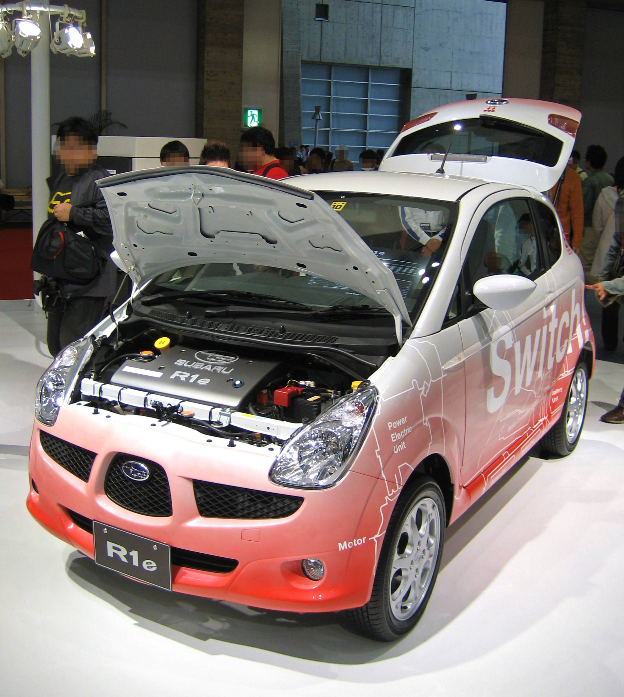 Subaru R1e (TEPCO "Switch! campaign" modified) in Tokyo Motor Show 2007.